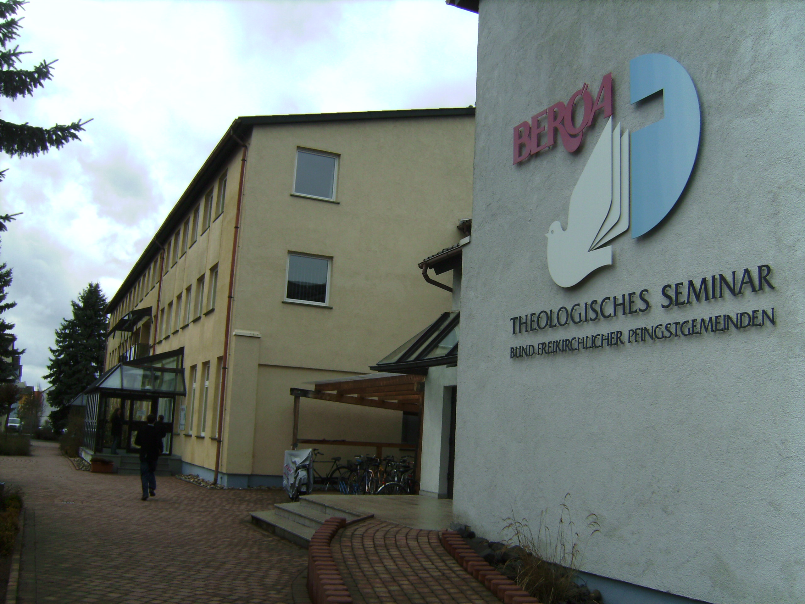 Theological Seminary Beröa, Erzhausen, Hesse, Germany, Main Entrance